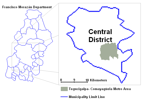 Map showing the location of the Central District Municipality within the Francisco Morazán Department as well as the Tegucigalpa- Comayagüela Metro Area within the District, capital of Honduras.